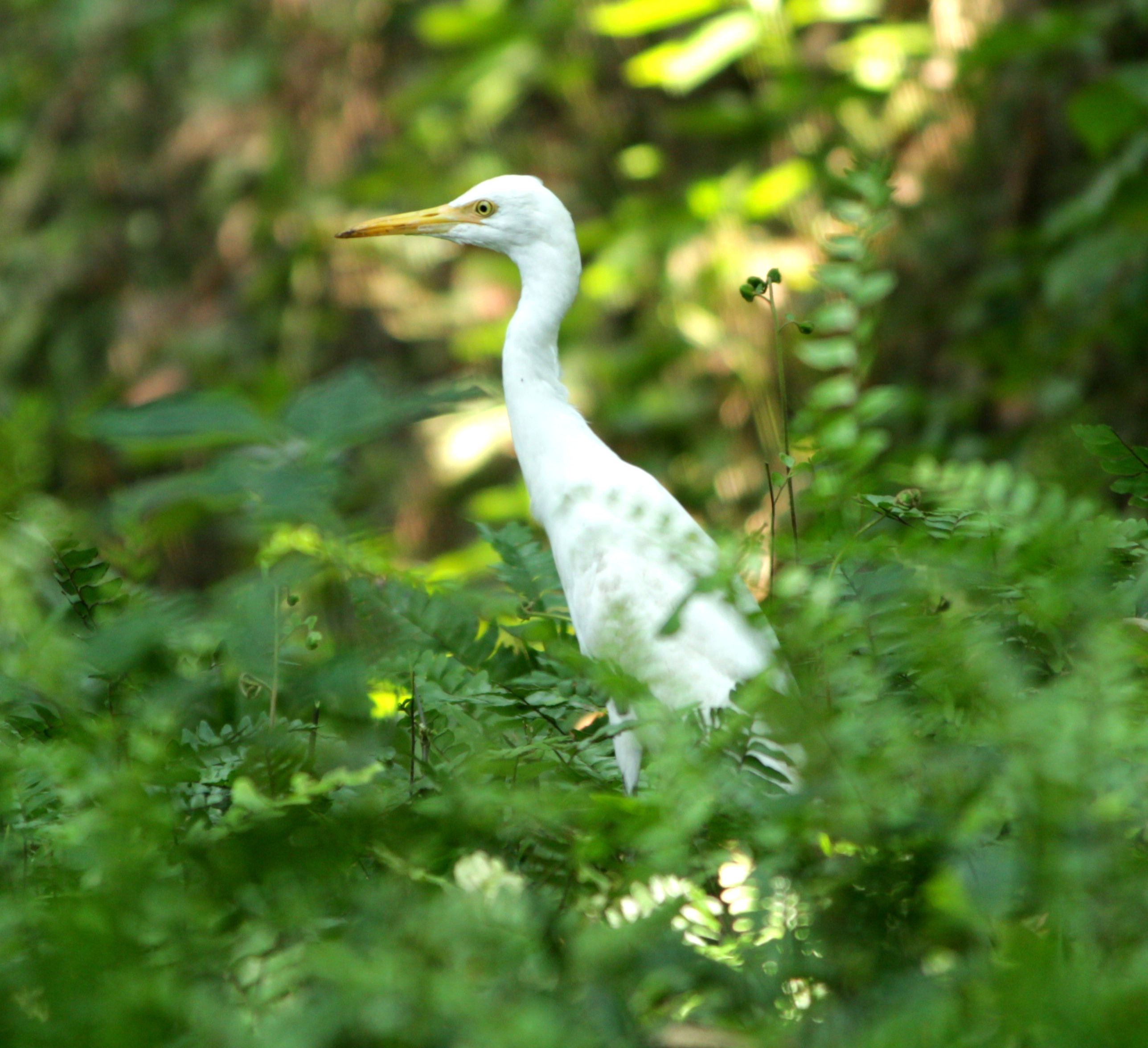 Intermediate egret (Ardea intermedia) in a rubber plantation. Photographed near Kanjirappally, Kerala.